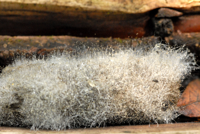 Mucor spec. from Commanster, Belgium. The determination of the species shown in this picture has been verified.